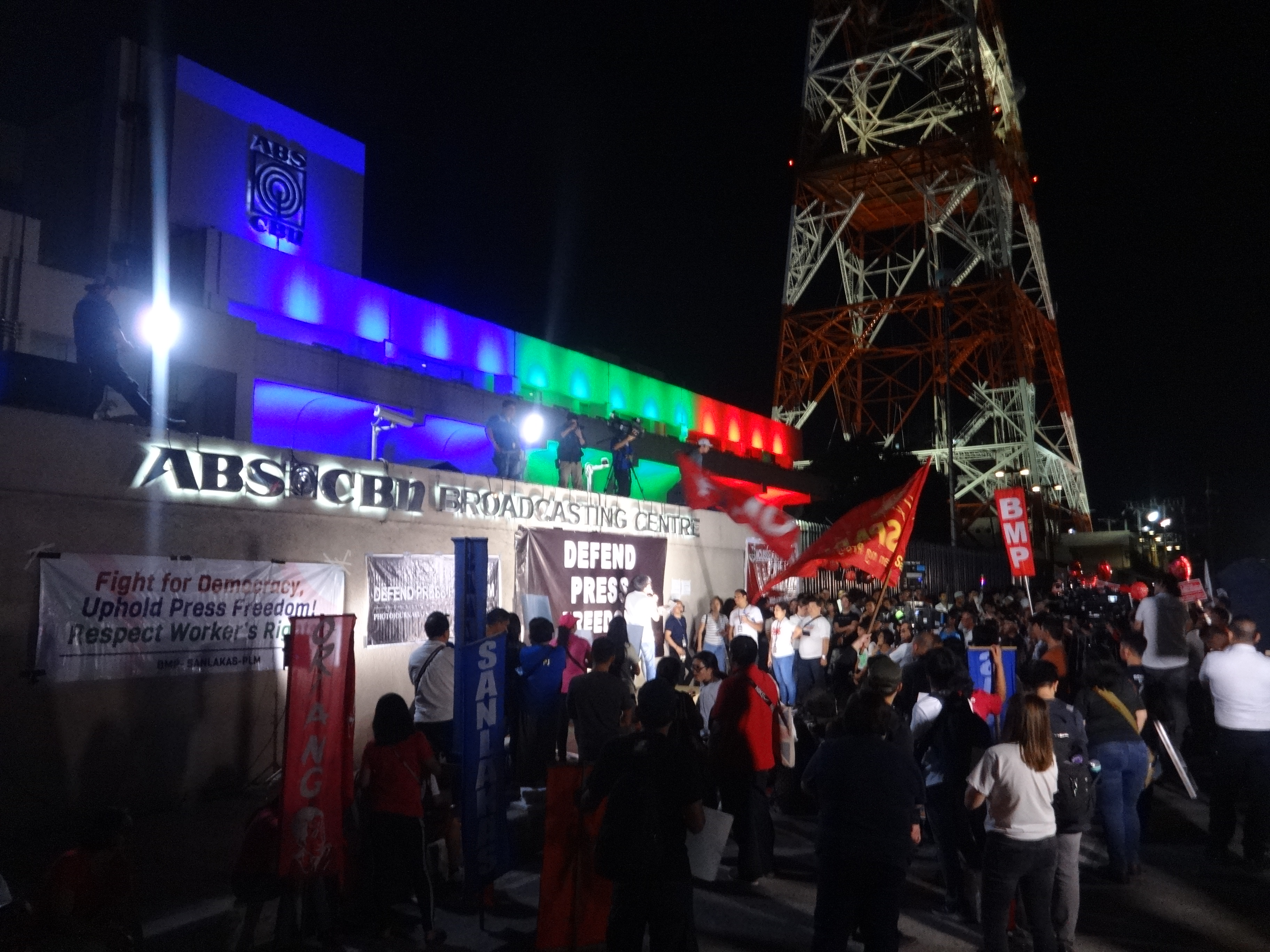 Protests outside ABS-CBN in Quezon City at night